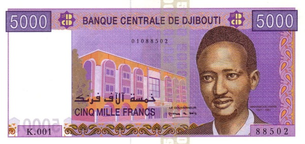 5000 Djiboutian Francs in 2002 Obverse